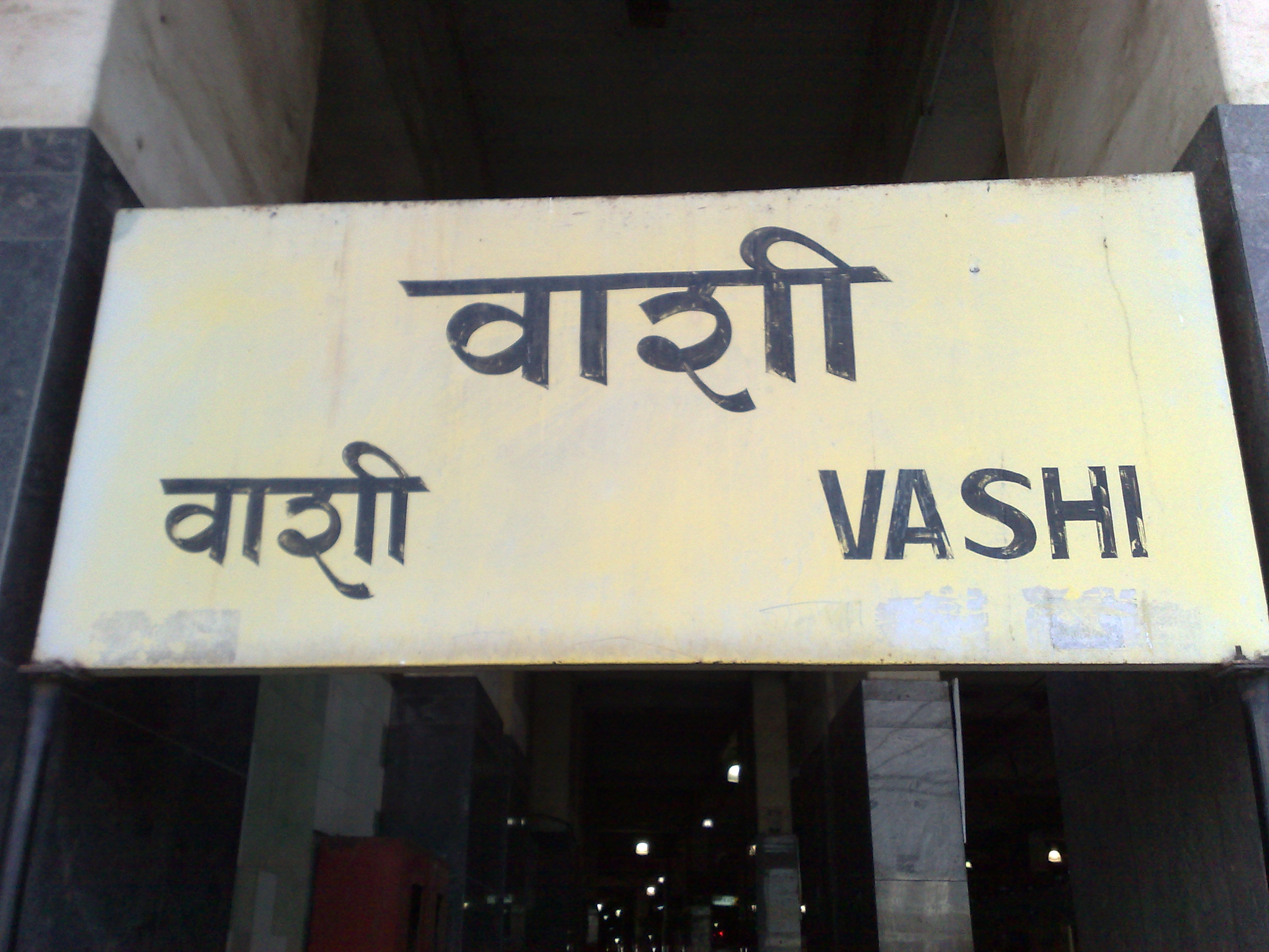 Vashi station